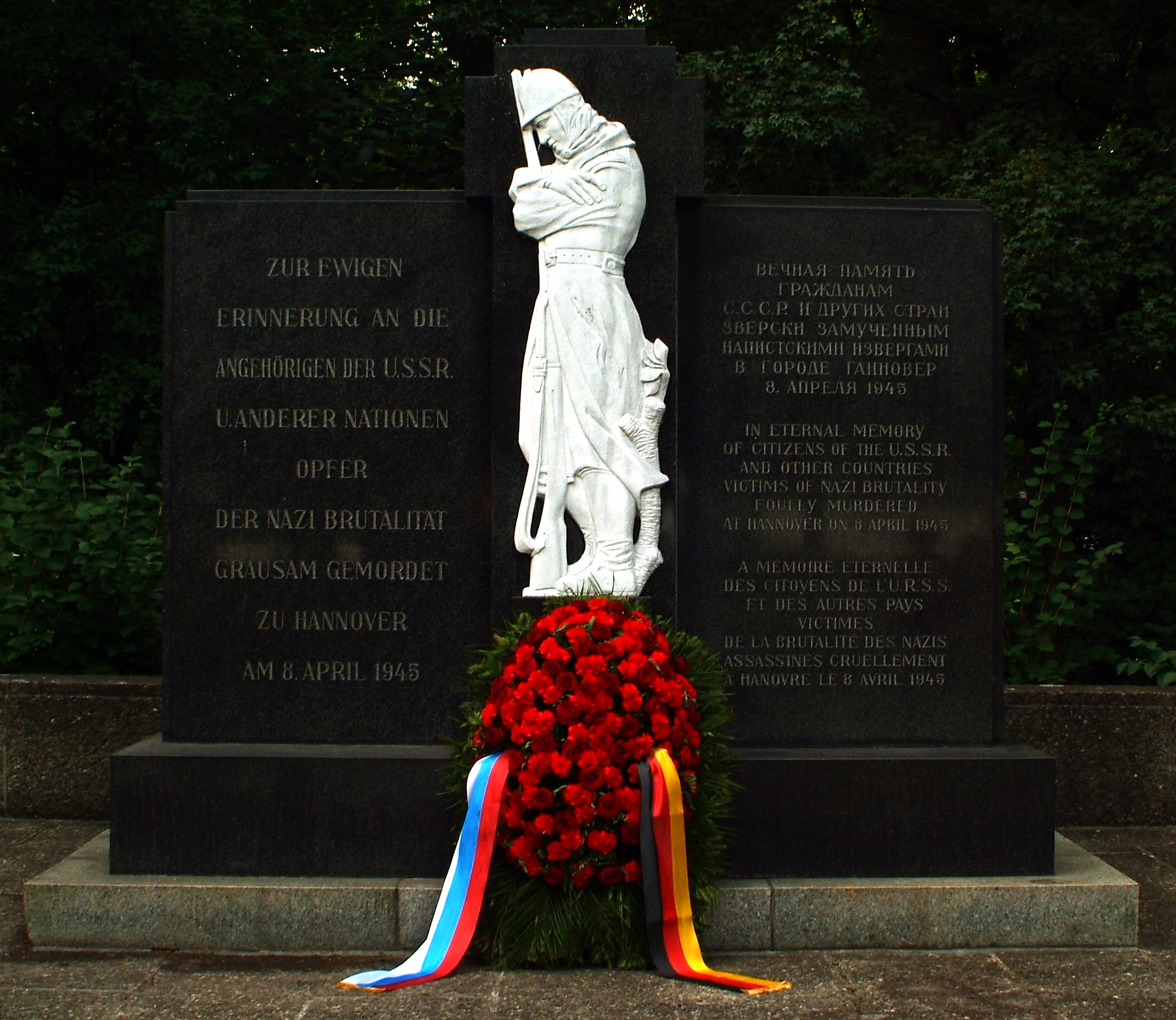 IN ETERNAL MEMORY OF CITIZENS OF U.S.S.R. AND OTHER COUNTRIES VICTIMS OF NAZI BRUTALITY FOUILY MURDERED AT HANNOVER ON 8 April 1945